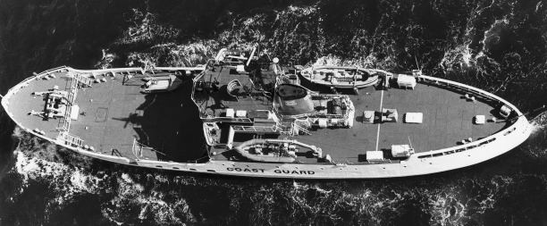 USCGC Citrus after 1982 conversion to a medium-endurance cutter From HEAER report p. 30 This image or file is a work of a United States Coast Guard service personnel or employee, taken or made as part of that person's official duties. As a work of the U.S. federal government, the image or file is in the public domain (17 U.S.C. § 101 and § 105, USCG main privacy policy and specific privacy policy for its imagery server).